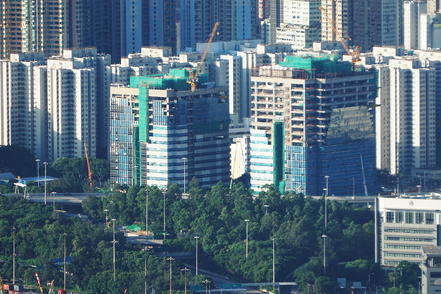 West Kowloon Government Offices in Yau Ma Tei, Hong Kong.